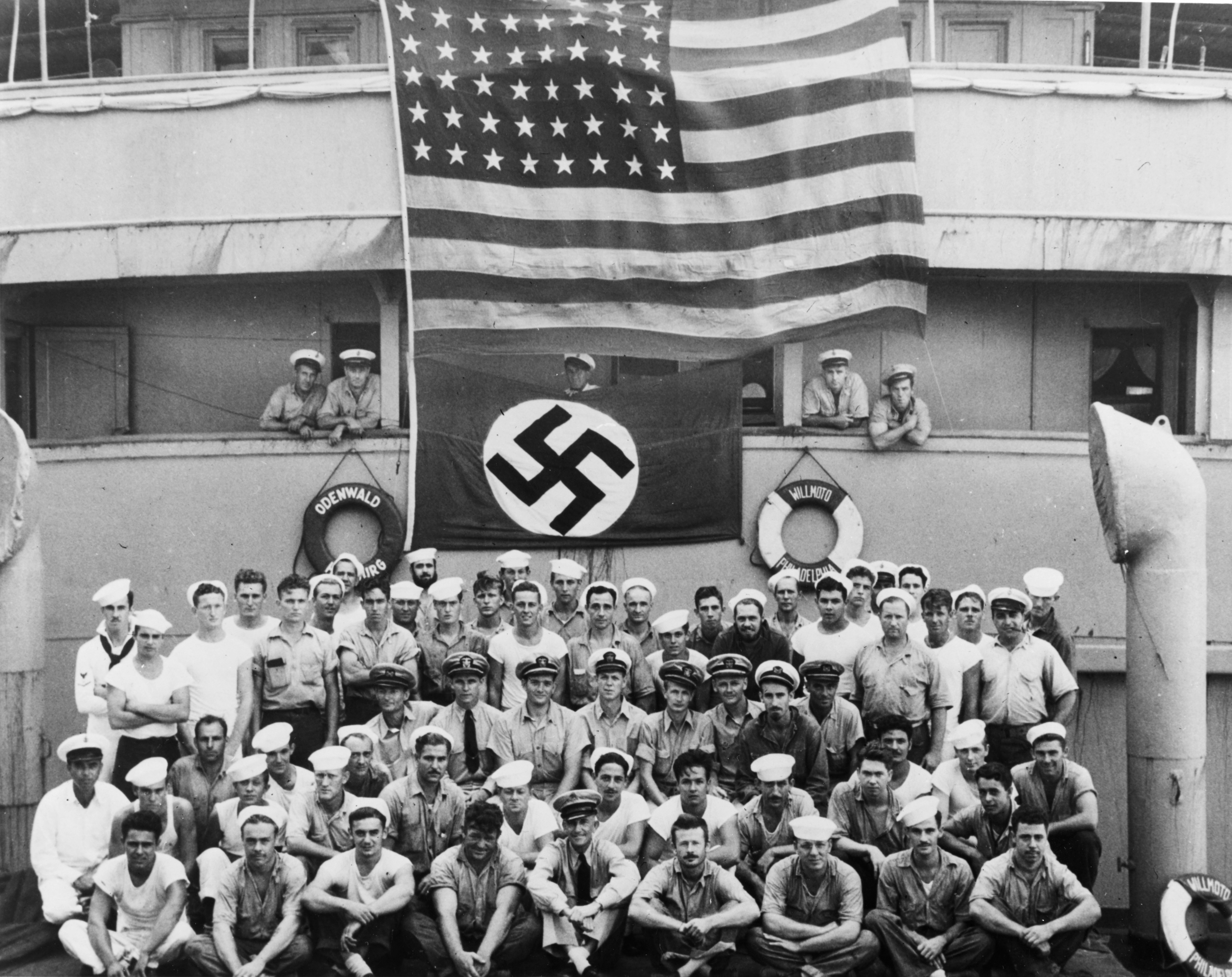 Crewmembers of the U.S. Navy heavy cruiser USS Omaha (CL-4) pose with U.S. and German flags, on board the captured German blockade runner Odenwald, in the South Atlantic, 18 November 1941. Life rings are present bearing the names Odenwald of Hamburg (Germany), and Willmoto of Philadelphia (USA). The German ship had attempted to disguise herself as the Willmoto, an American-flag merchant steamer. Odenwald was seized by Omaha and the destroyer USS Somers (DD-381) on 6 November 1941. This photograph is dated 18 November 1941.